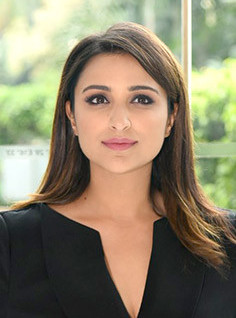 Parineeti Chopra at a promotional event for Golmaal Again